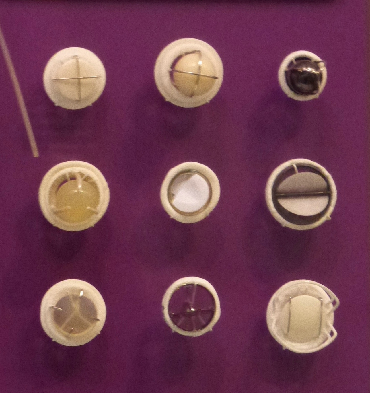 Different types of mechanical heart valves. These objects are part of the collections of the National Museum of Health and Medicine.